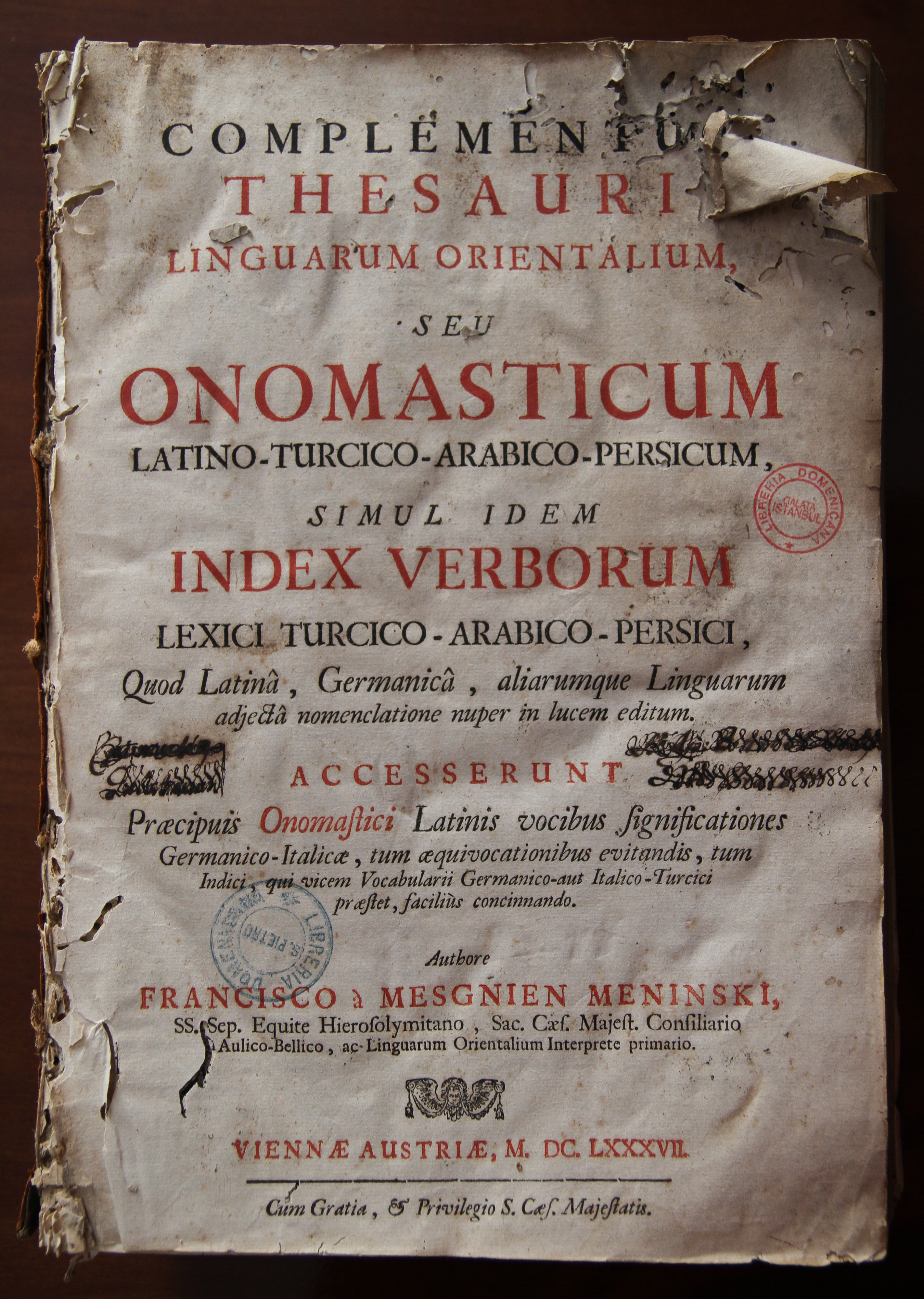 In-folio